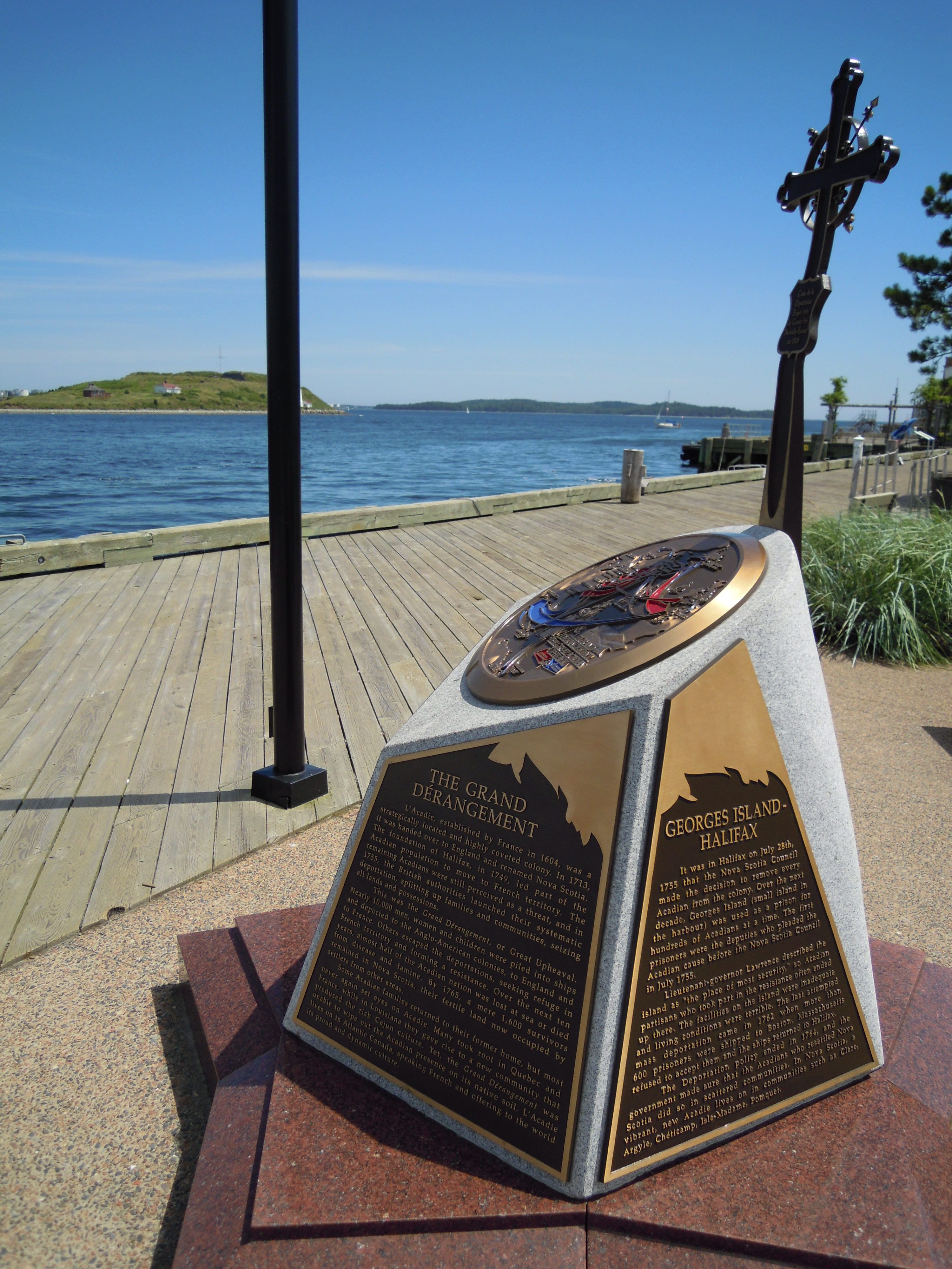 Monument in Halifax harbour commemorating the use of Georges Island as a prison for deported Acadians during the Grand Dérangement of the 1750s and 1760s. Georges Island is visible in the background. Halifax, Nova Scotia, Canada.